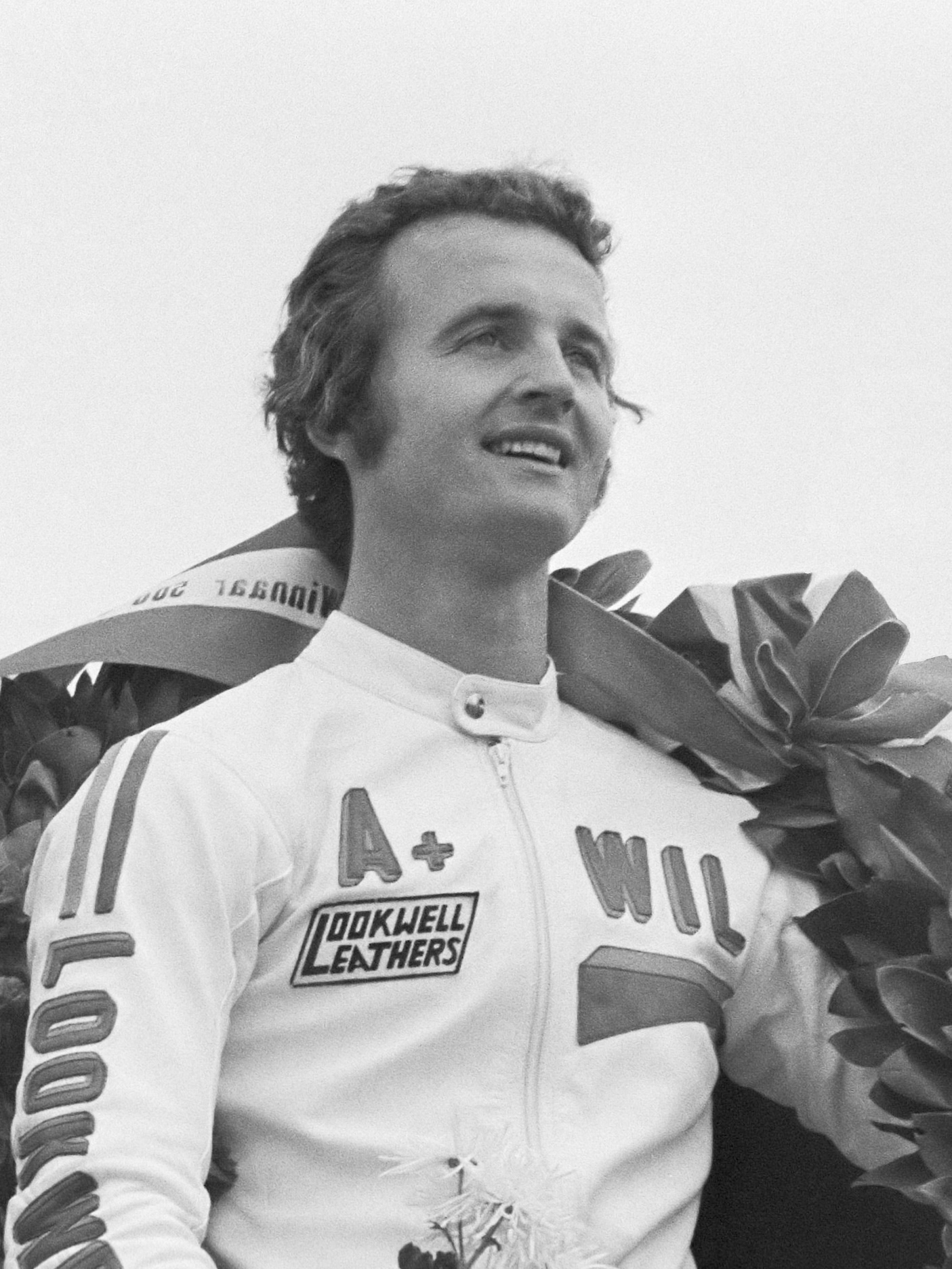 TT Assen; Wil Hartog 25 juni 1977